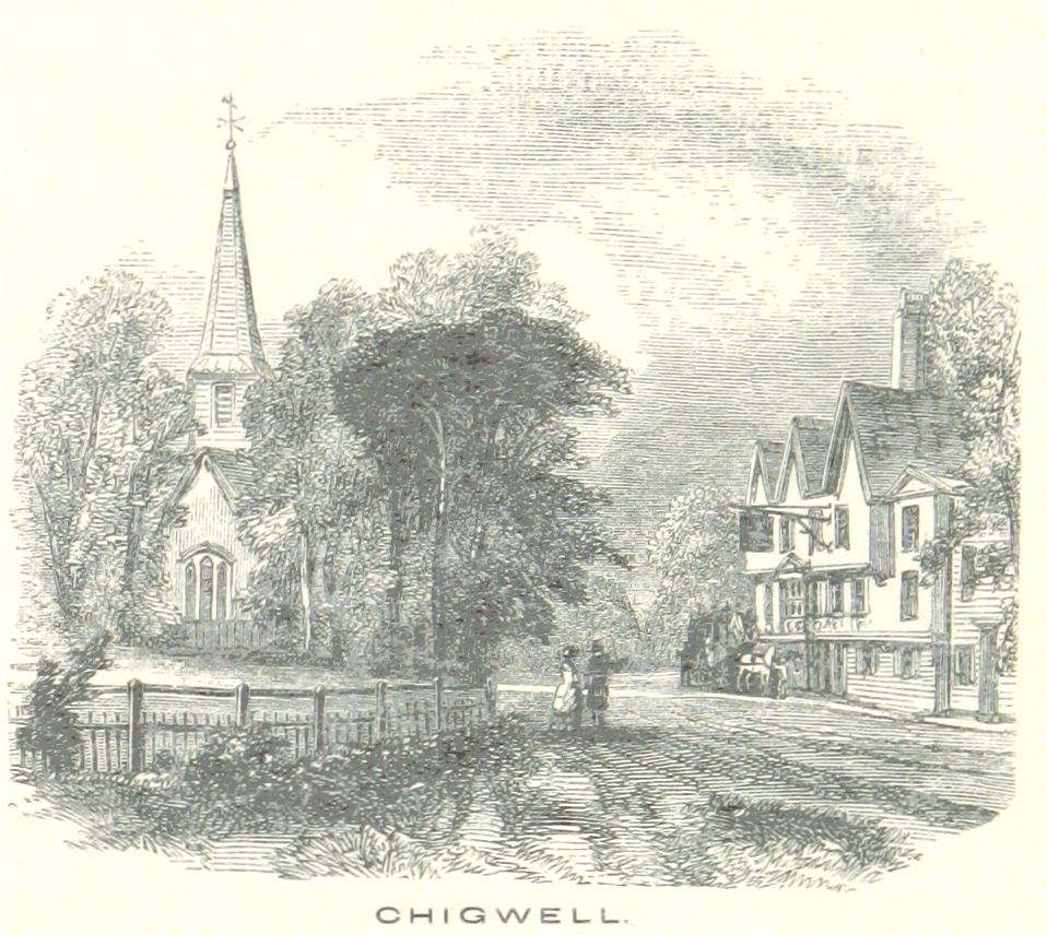 St Mary's Church, Chigwell in Essex (left), and Ye Olde King's Head pub (right), reputed to be the model for the Maypole Inn in Charles Dickens's Barnaby Rudge.